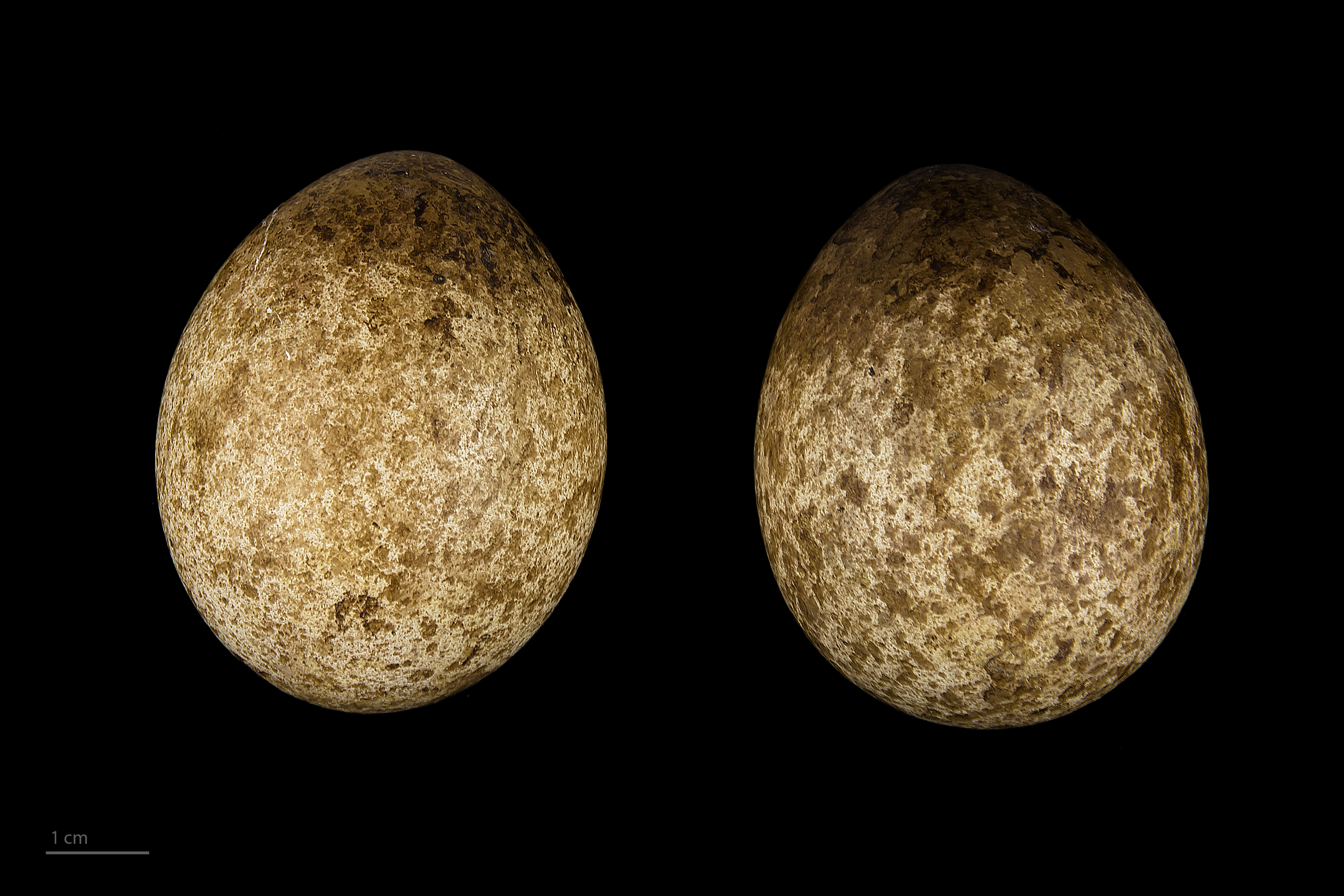 Eggs of Falco biarmicus erlangeri Two specimens of the same spawn ; collection of Jacques Perrin de Brichambaut.